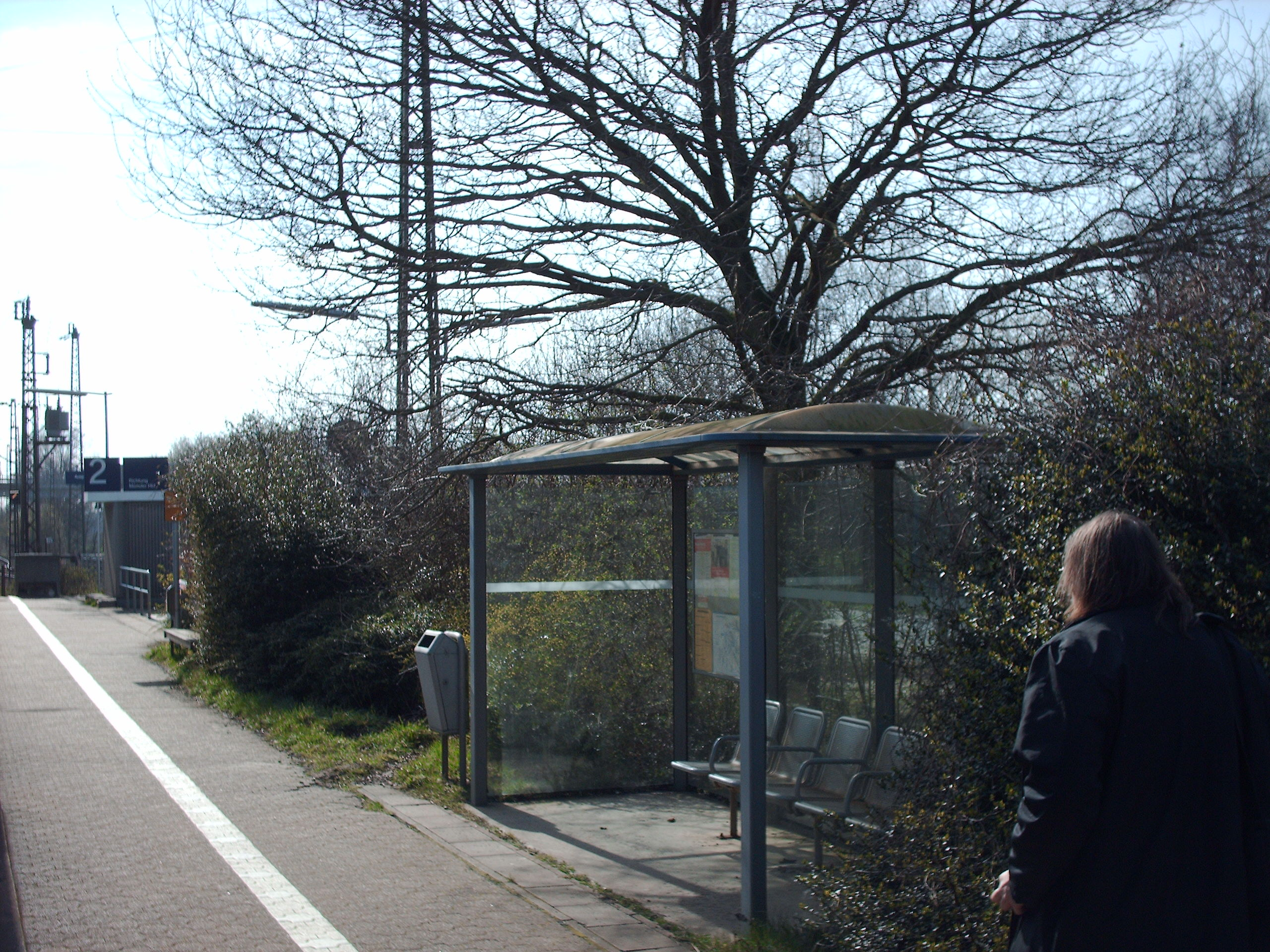 Ostbevern station, Ostbevern, Germany check usage